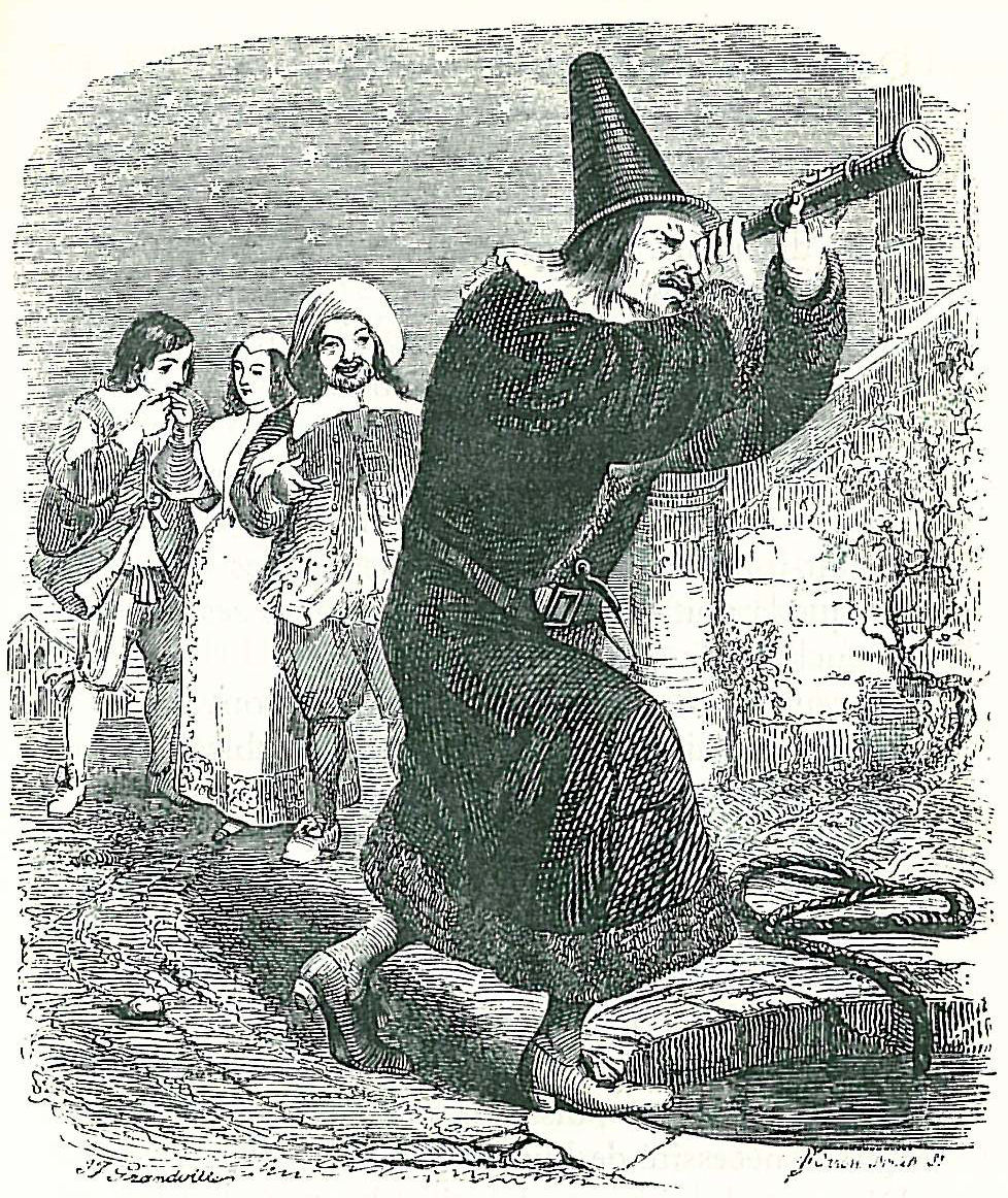 illustration of Jean de La Fontaine's fables